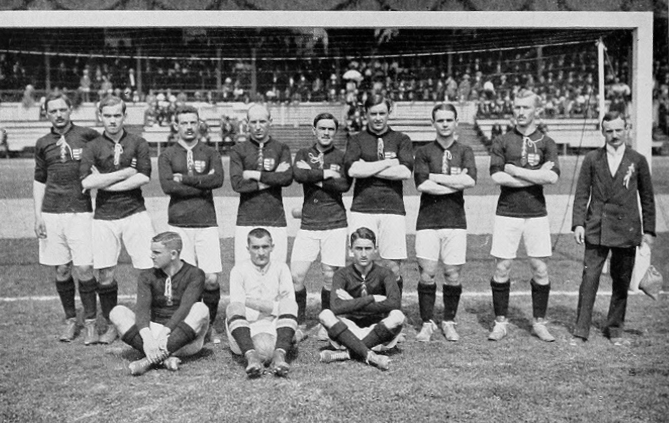 The Hungary national football team at the 1912 Summer Olympics. Standing : Gáspár Borbás, Imre Schlosser, Béla Sebestyén, Károly, Antal Vágó, Gyula Rumbold, Sándor Bodnár, Gyula Bíró. Seated: Imre Payer, László Domonkos, Mihály Pataki.